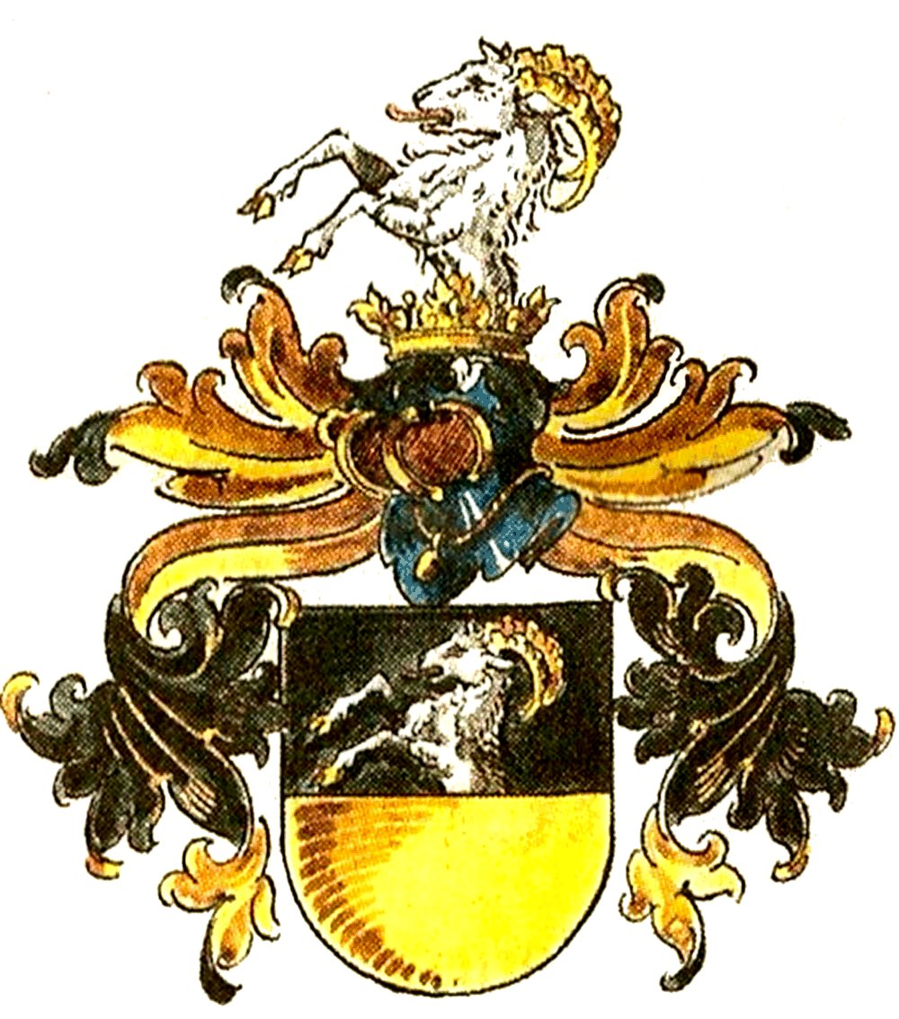 Coat of arms of the german family Boxberger